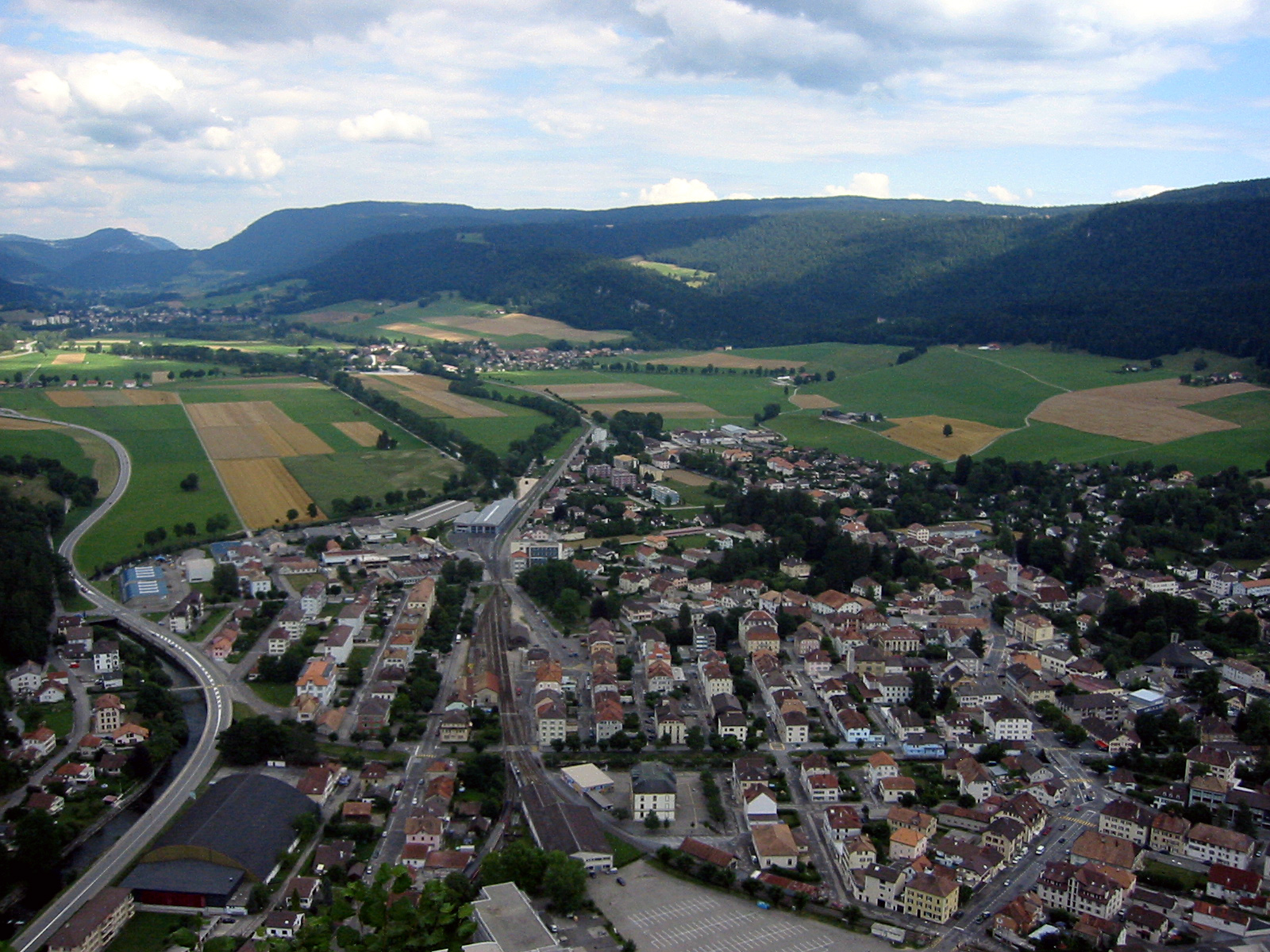 View from Chapeau de Napoléon to Fleurier, Val-de-Travers, Neuchâtel.